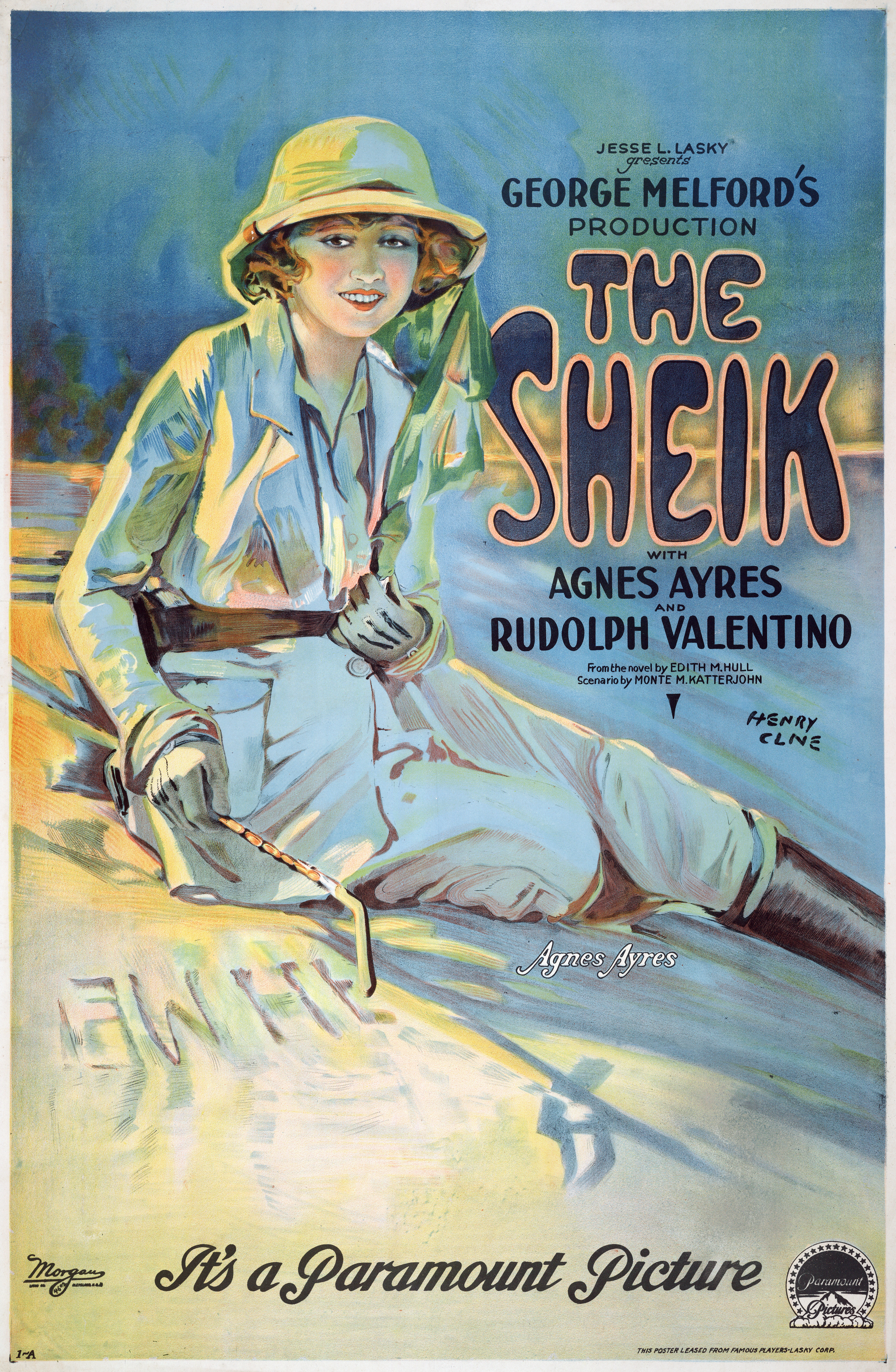 Jesse L. Lasky gresents [sic] George Melford's production The Sheik with Agnes Ayres and Rudolph Valentino. From the novel by Edith M. Hull. Scenario by Monte M. Katterjohn. It is a Paramount Picture.